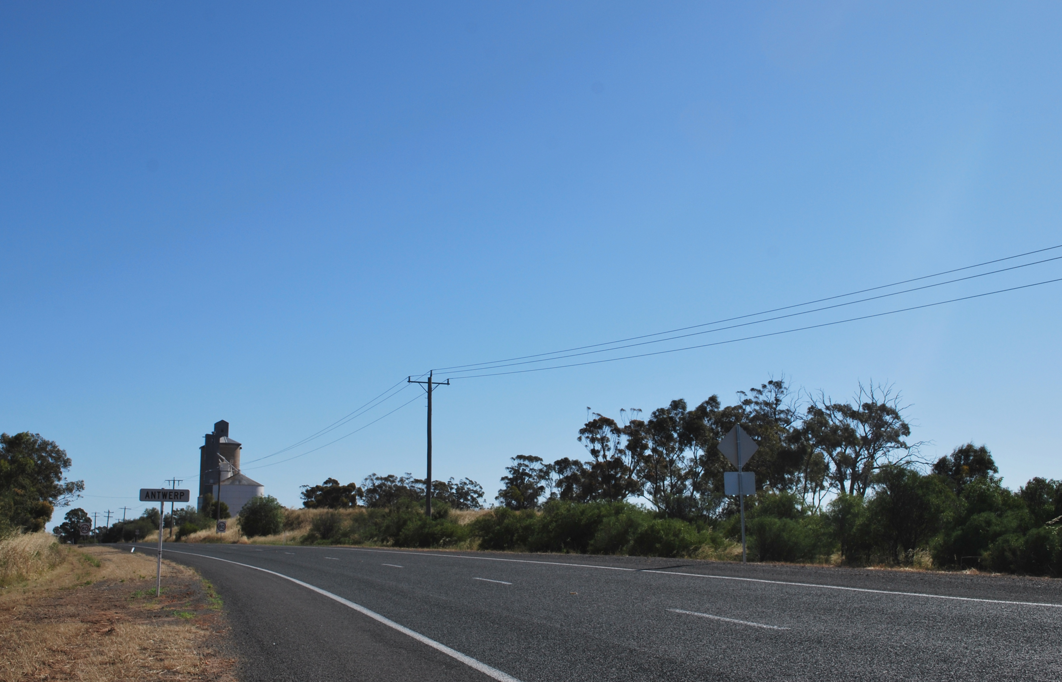 Entering Antwerp, Victoria